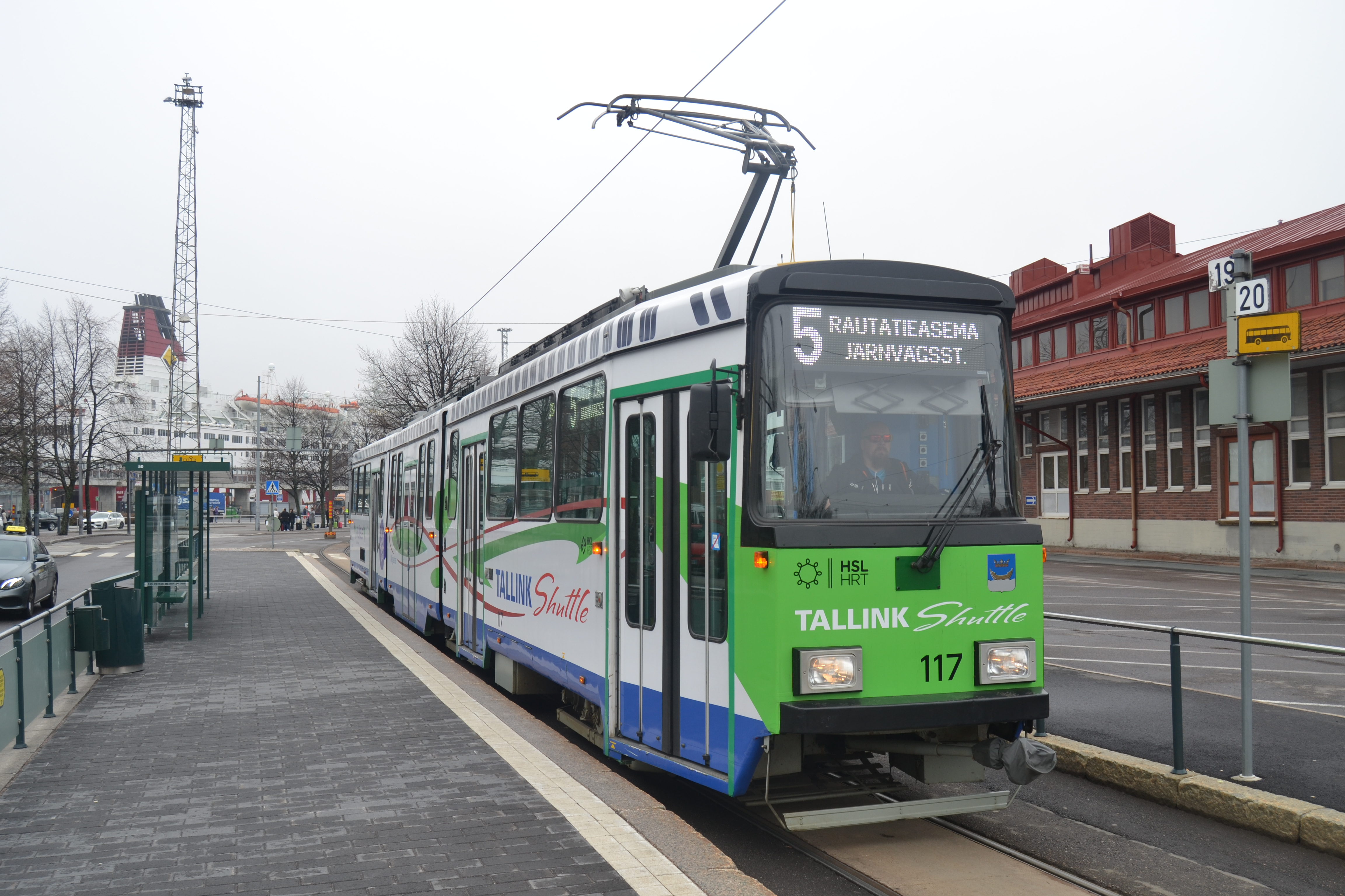 MLNRV1 tram no. 117 in Katajanokalla, Helsinki